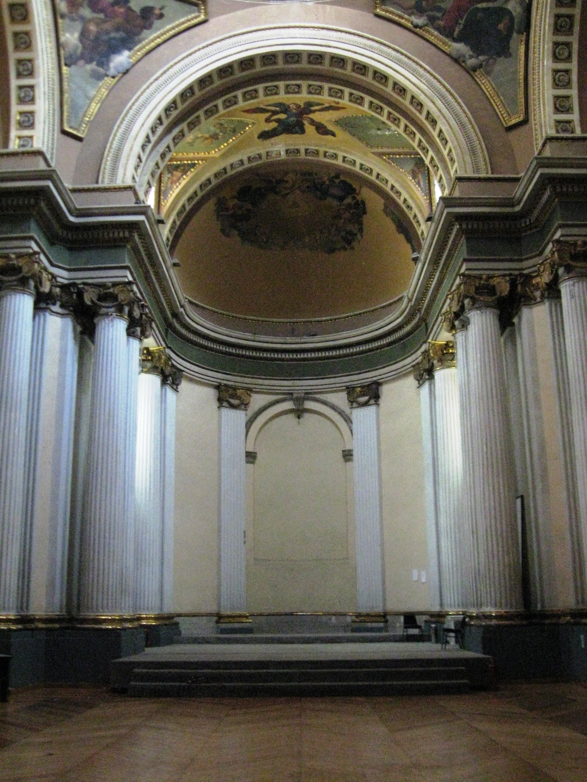 Altar area of the chapel of the ex convent of Santa Teresa in the historic center of Mexico City